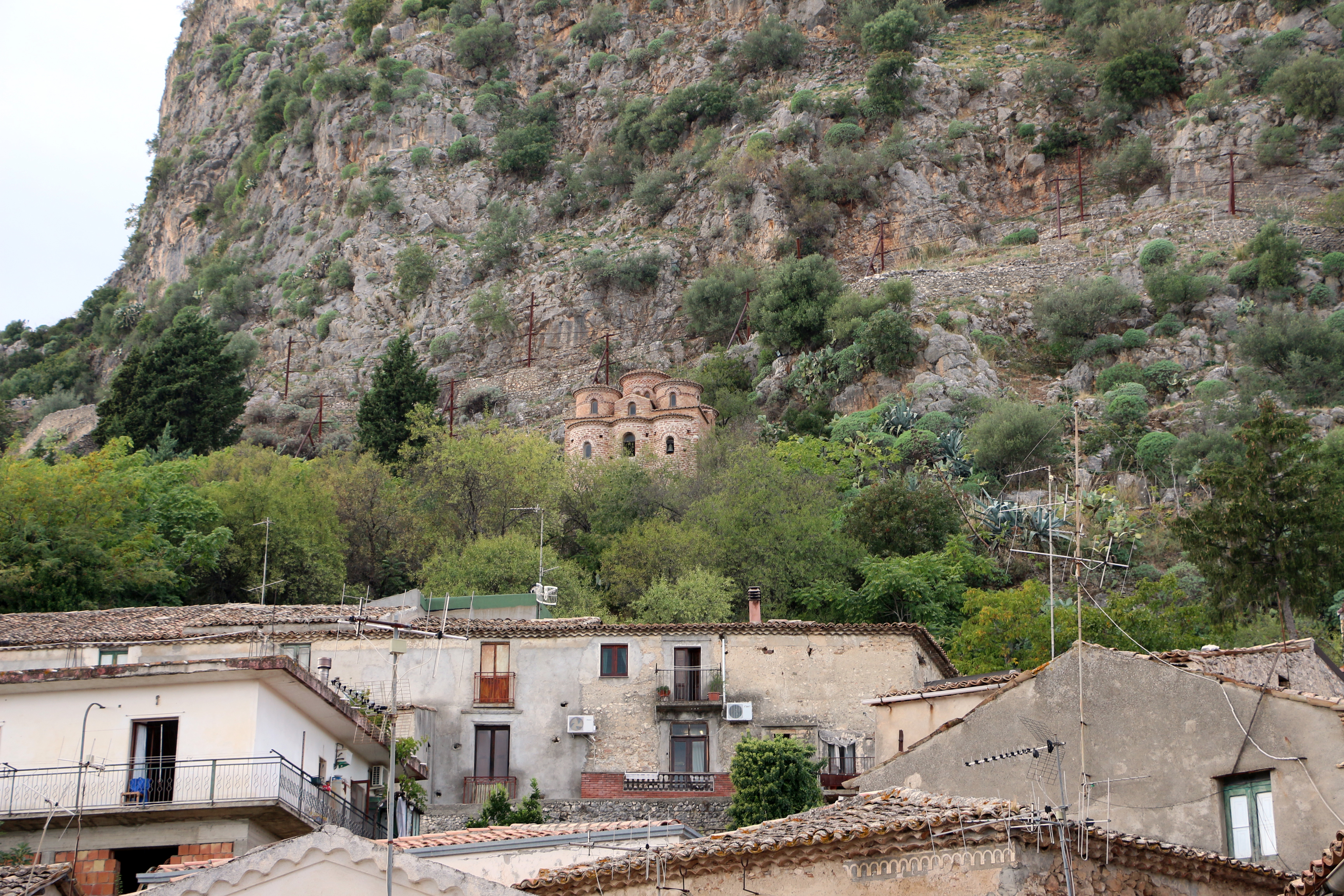 Cattolica di Stilo